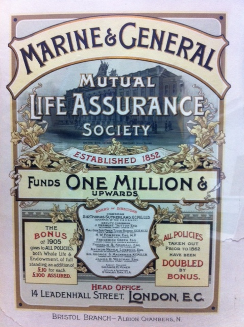 Marine & General poster from 1905